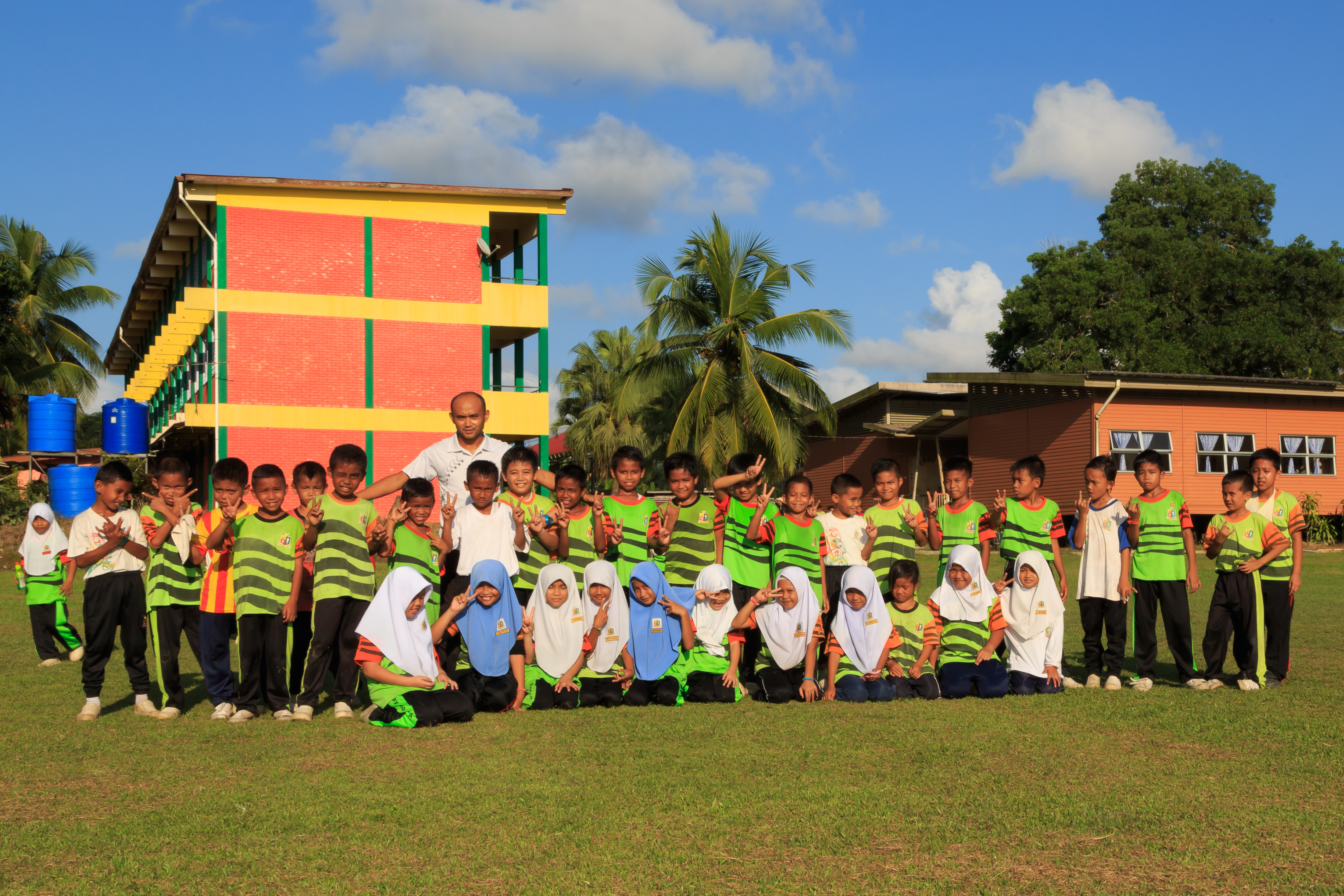 Kg. Muhibbah, Sandakan, Sabah: A class of SK Sungai Manila posing for the photograph during their sports lesson